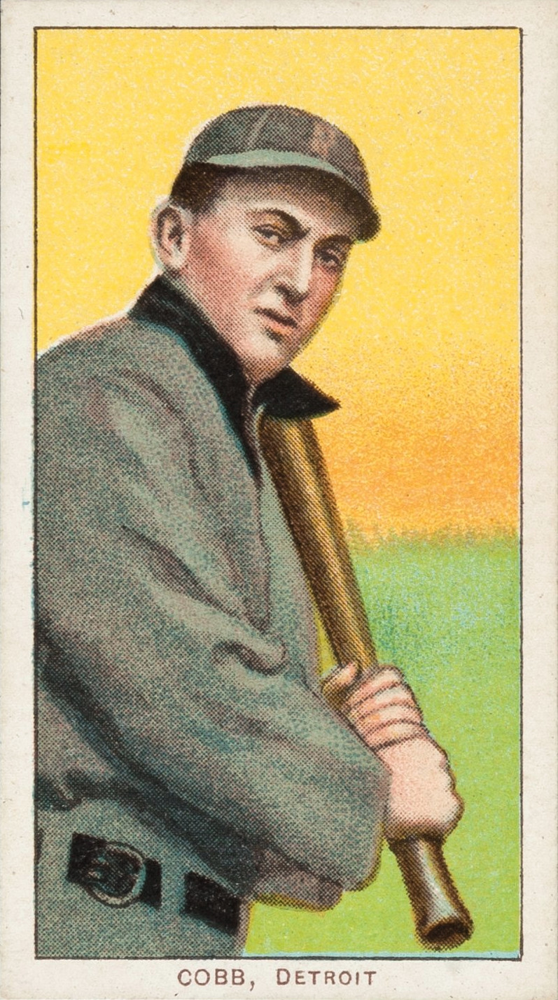 Ty Cobb baseball card, American Tobacco Company, 1909-11. From the collection of the Library of Congress and in the public domain